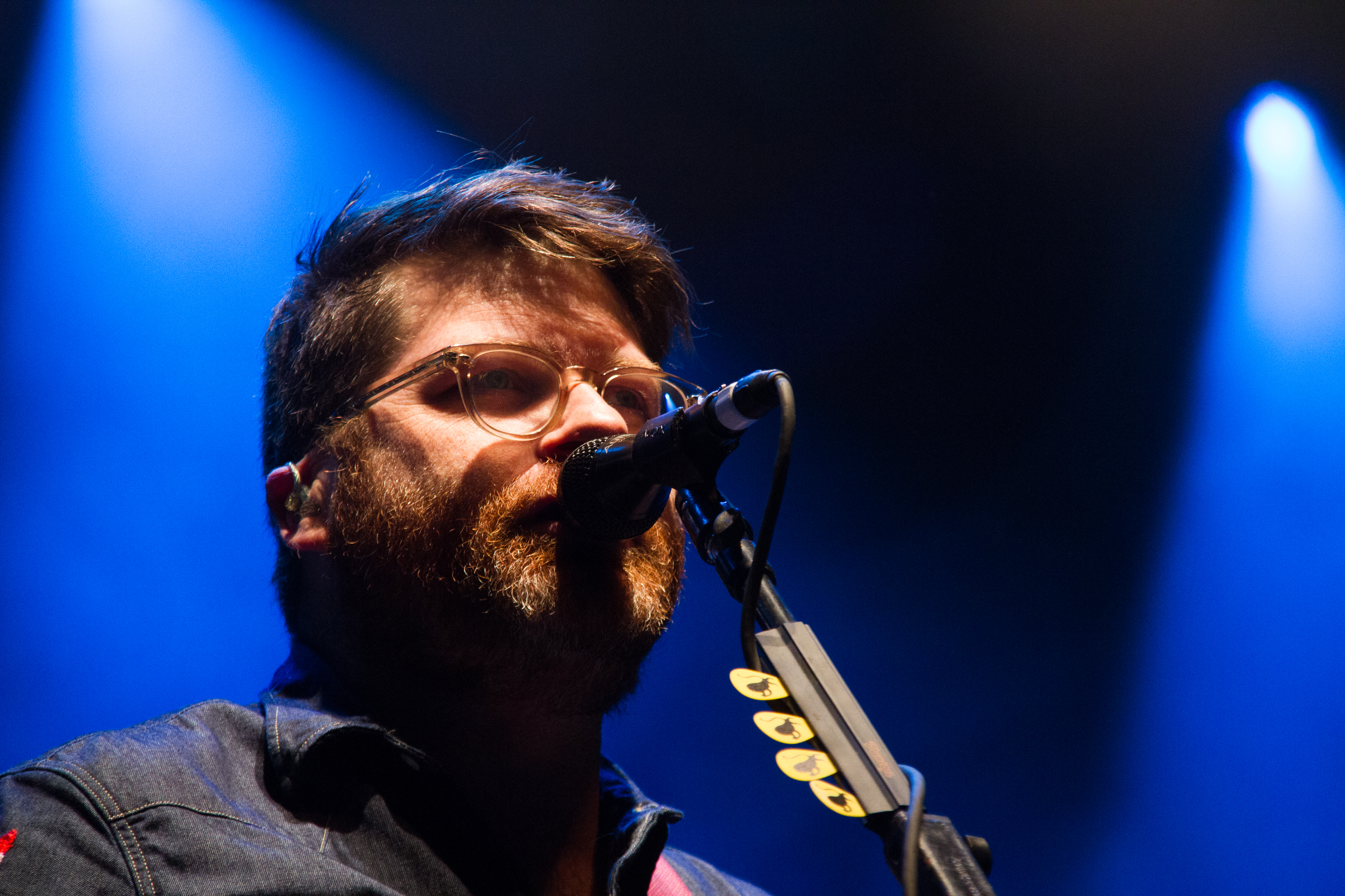 The Decemerists, the 80/35 music festival headliners, perform on July 9 on the Hyvee Main stage. According to the band, people have been trying to get them to come to the festival since 2003.